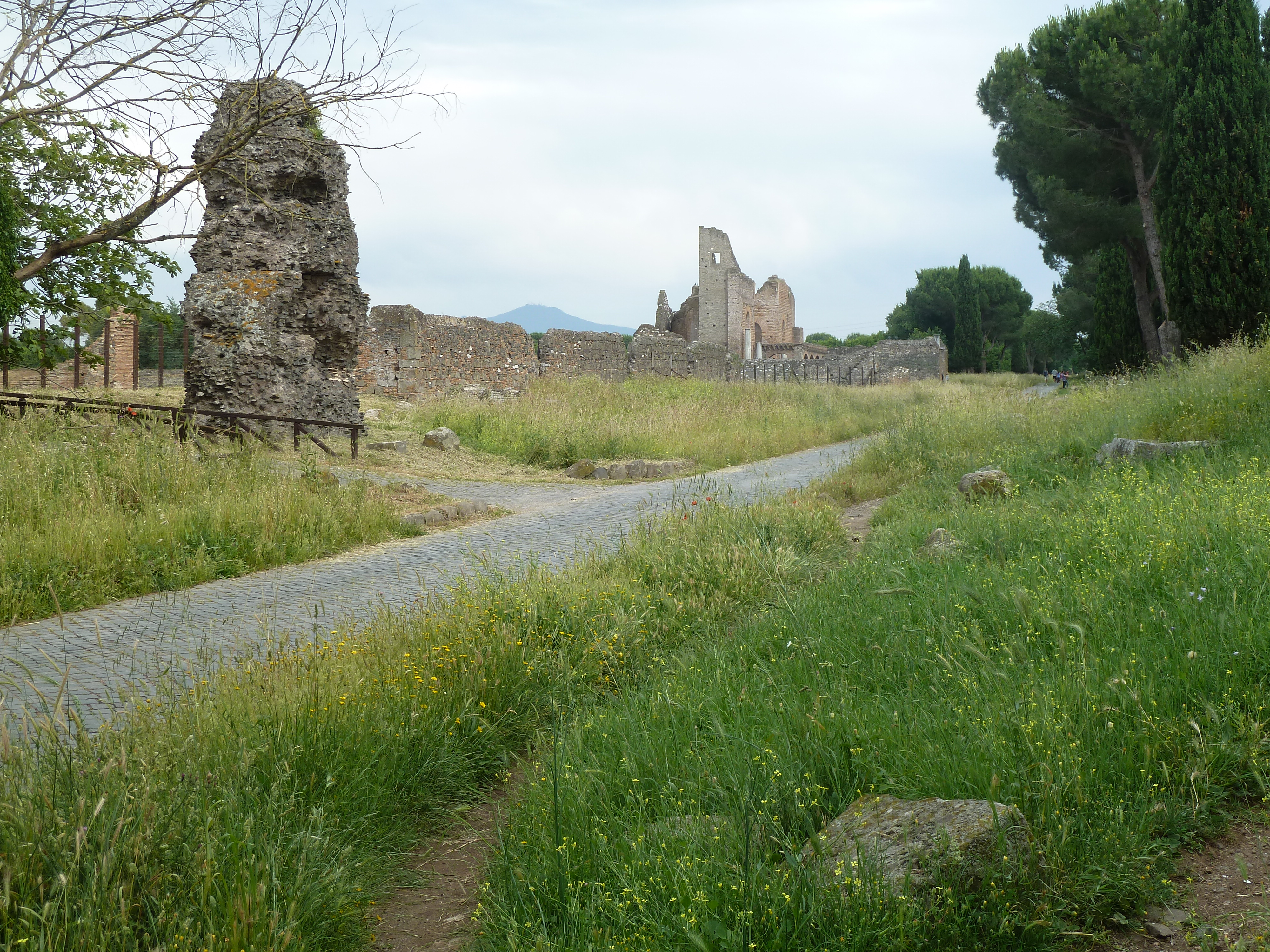 Villa Quintili Appia Antica